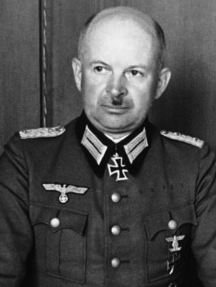 Cropped photograph of German Chief of General Staff, Colonel-General Kurt Zeitzler. Cropping, contrast shadows increased and highlights decreased using Photo Editor at